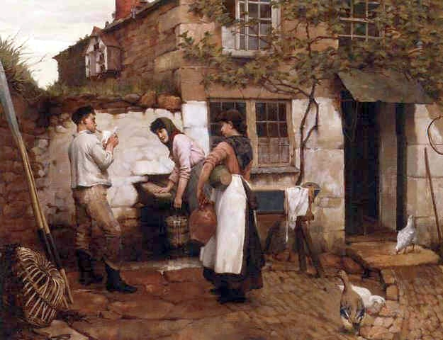 The Latest News